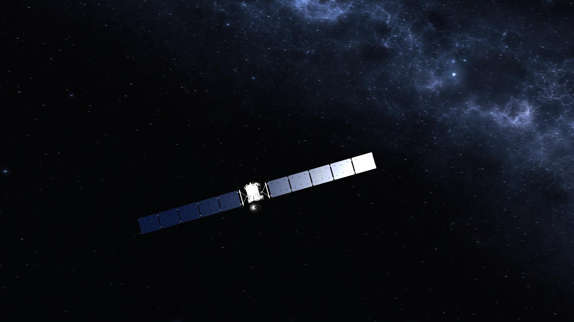 Rosetta space probe in space. Frame from the movie "Chasing A Comet – The Rosetta Mission".